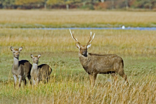 Arne RSPB reserve - Sika Deer. Great place to get close to wild deer, beautiful location.